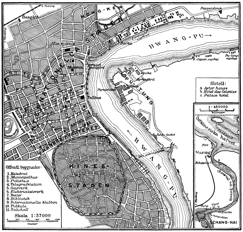 Shanghai around 1910.